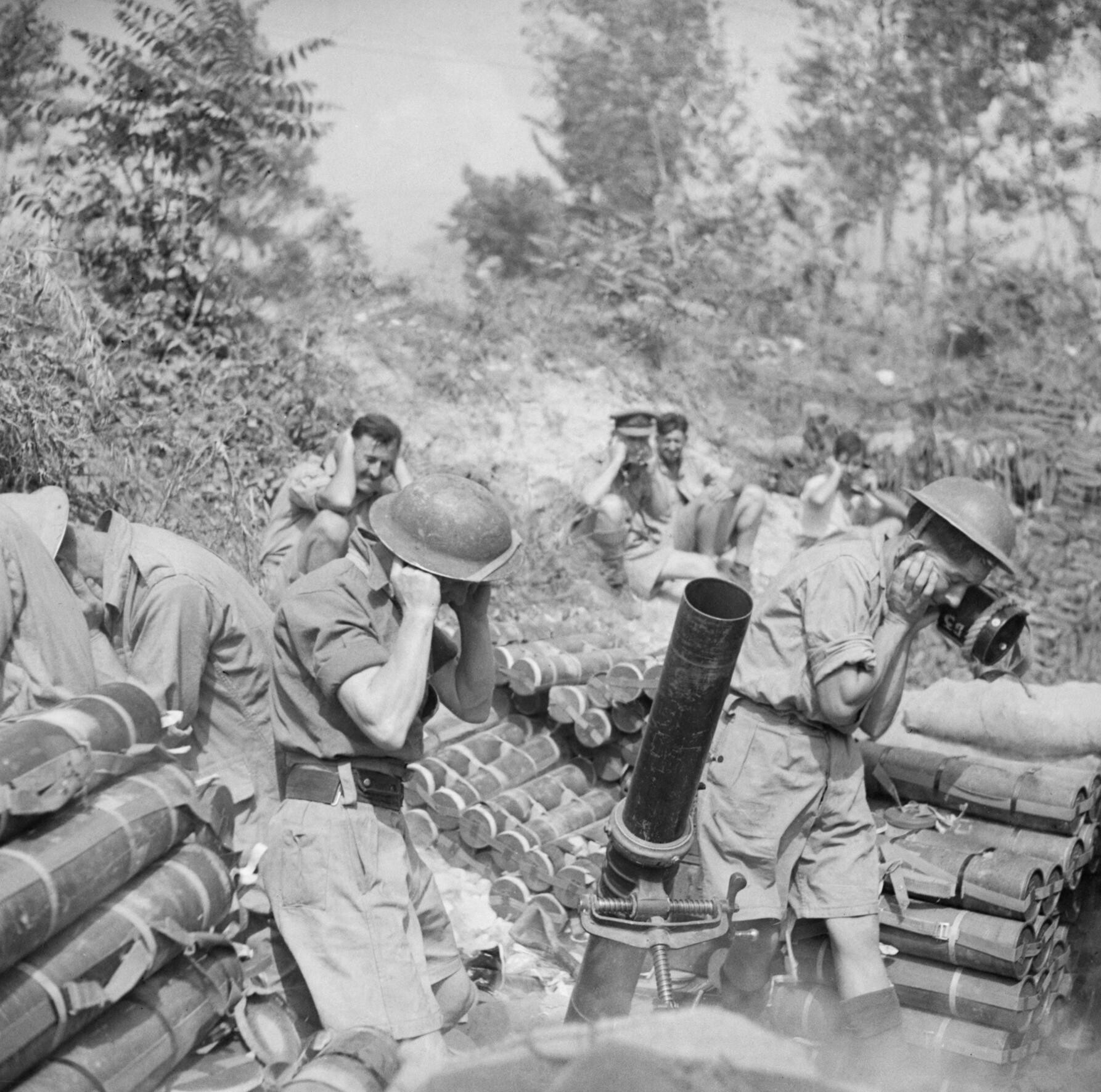 A 4.2-inch mortar of 'S' Troop, 307th Battery, 99th Light Anti-Aircraft Regiment, in action with the mortar for the first time, at Cassino, Italy.